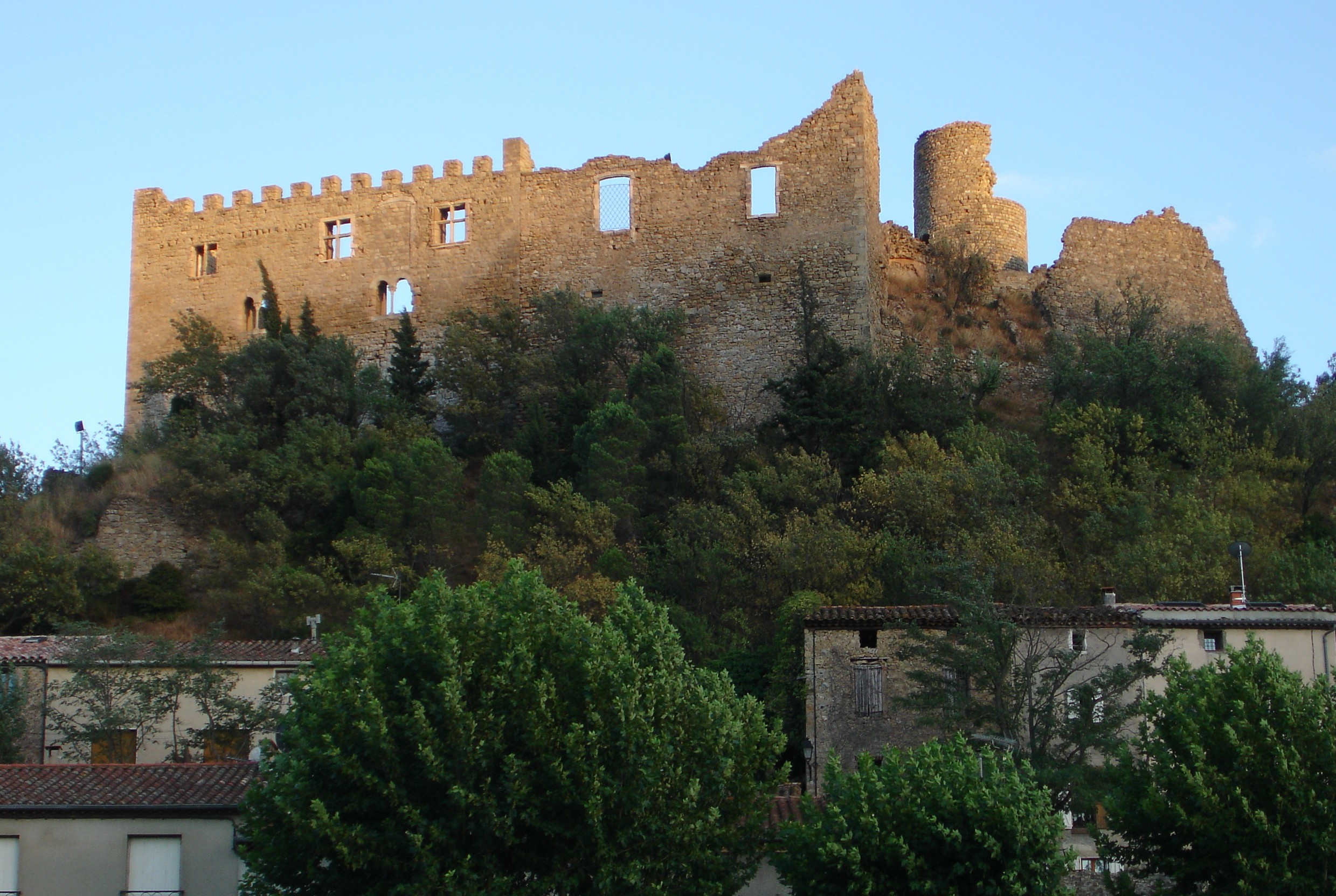 Photo taken while in Durban-Corbieres